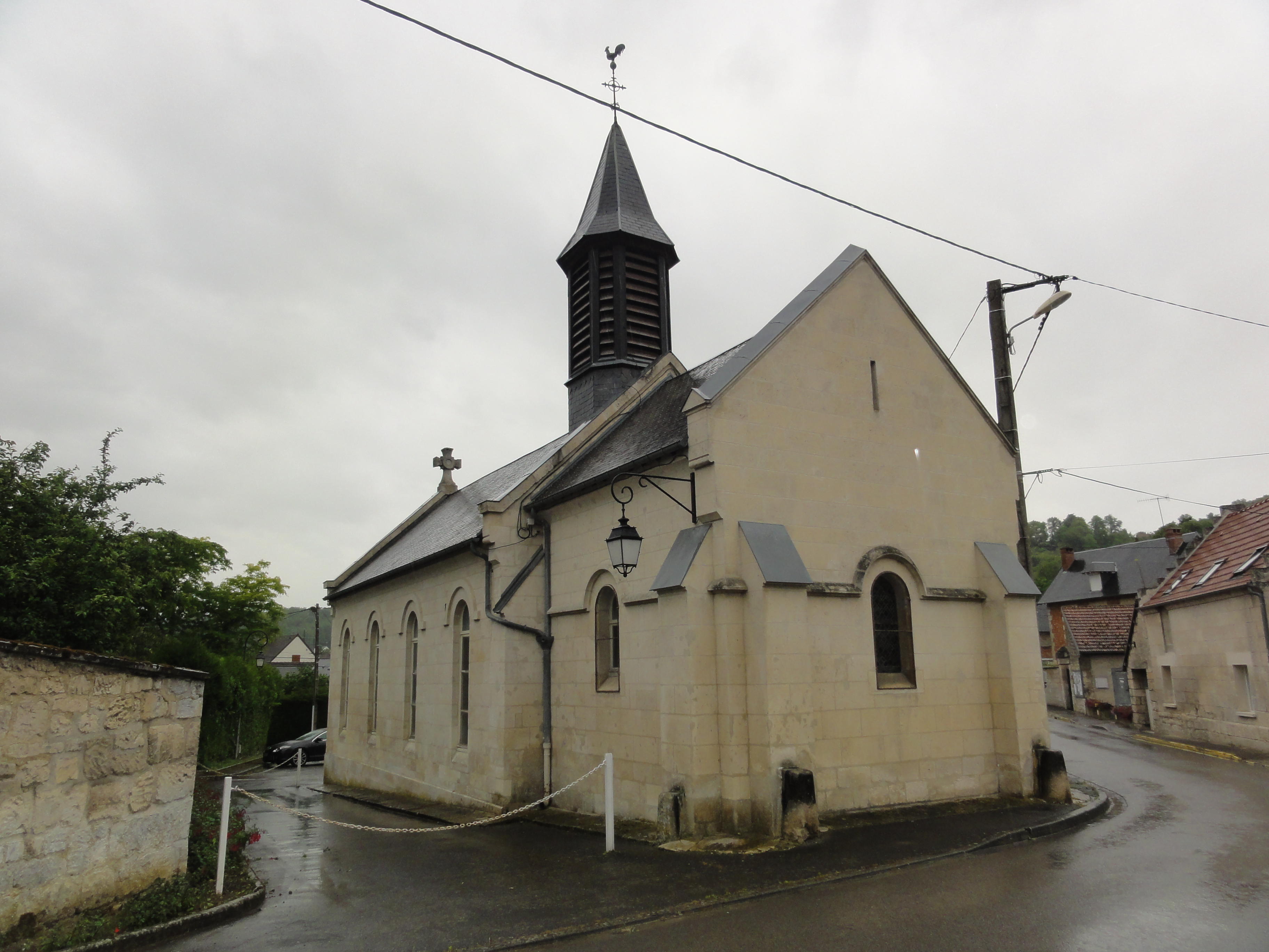 Pasly (Aisne) église